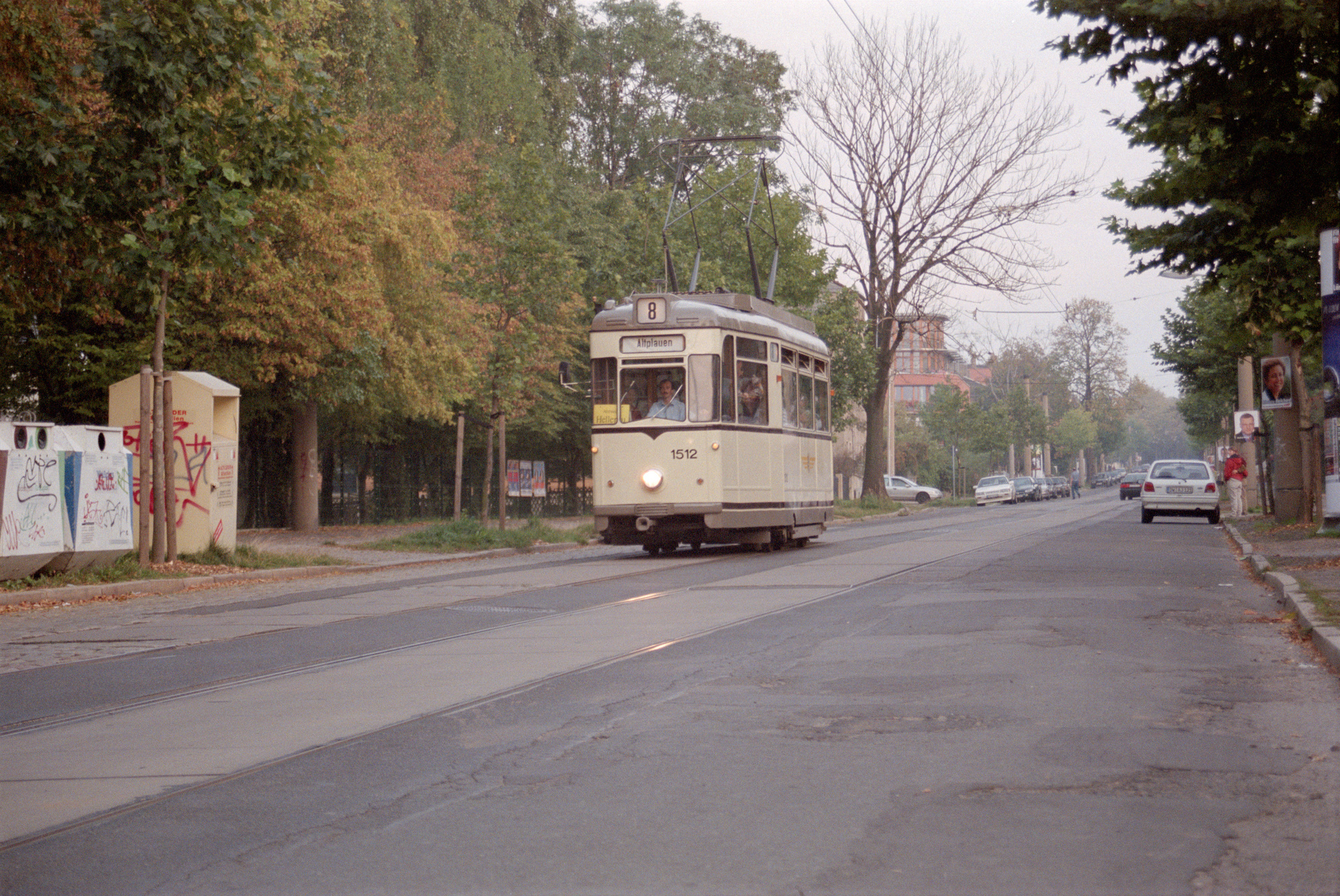 A preserved historic tram in Dresden. Car 1512 was built in 1960 by Gotha and is type T59E.